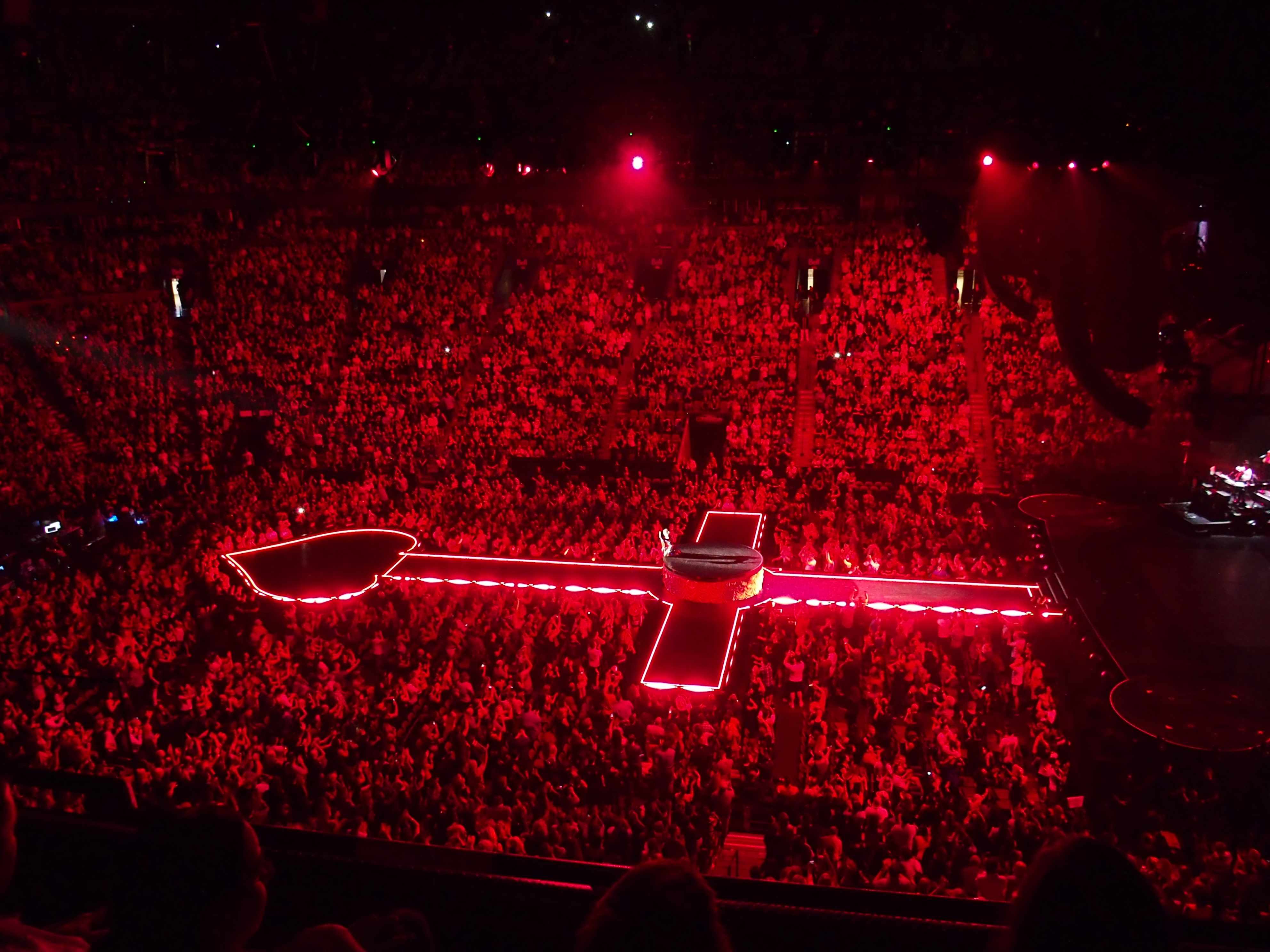 Madonna, Rebel Heart Tour, Bell Center, Olympus Stylus 1, Montréal, 10 September 2015 (122) Madonna performing on the Rebel Heart Tour